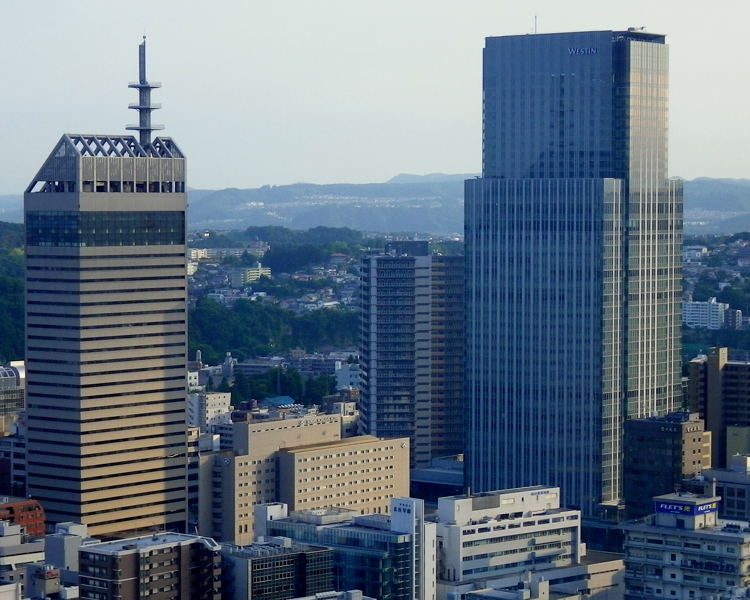 SS30 (left) & Sendai Trust City (right) viewed from AER in the evening.